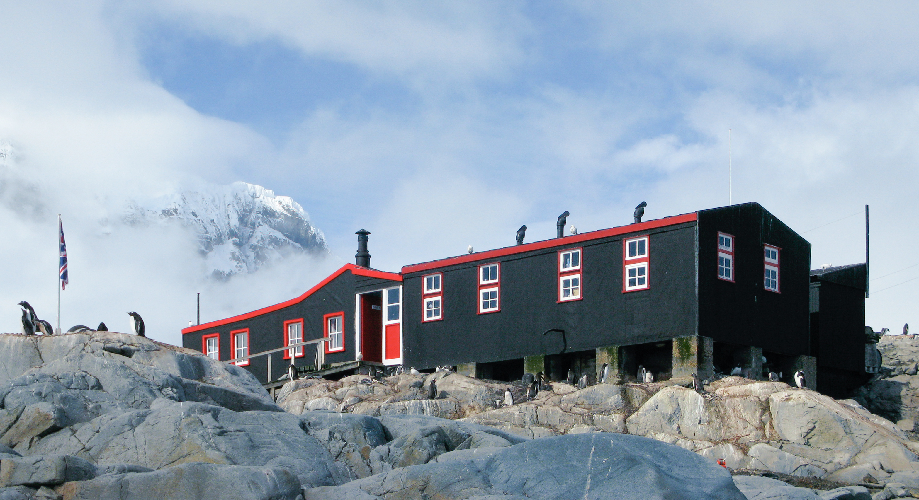 Port Lockroy British Base - Goudier Island, Antarctic Peninsula. Main building Port Lockroy Base "A" ; Port Lockroy is a natural harbour on the Antarctic Peninsula of the British Antarctic Territory